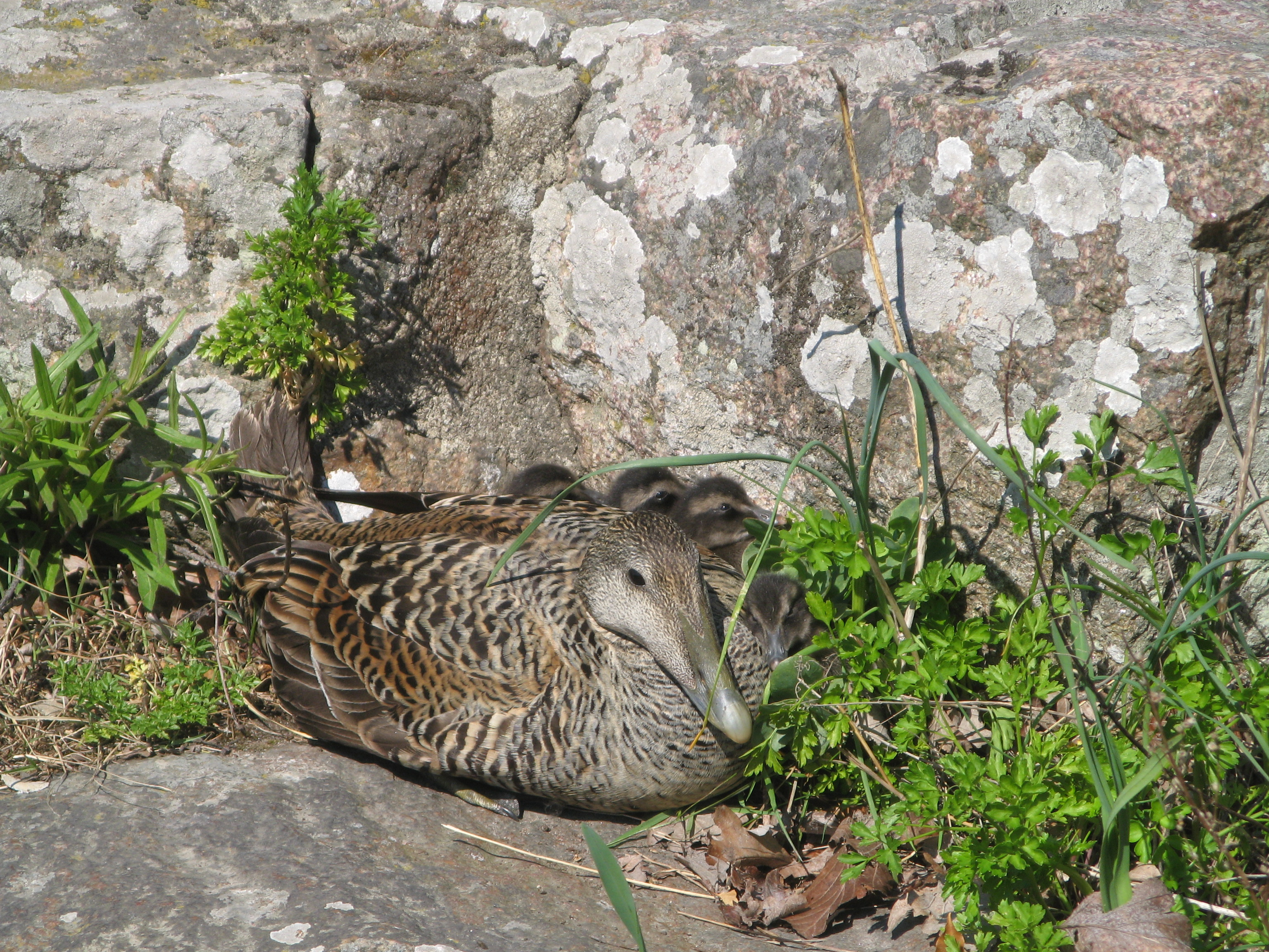 Christiansø, Eider-duck close to the fortified wall